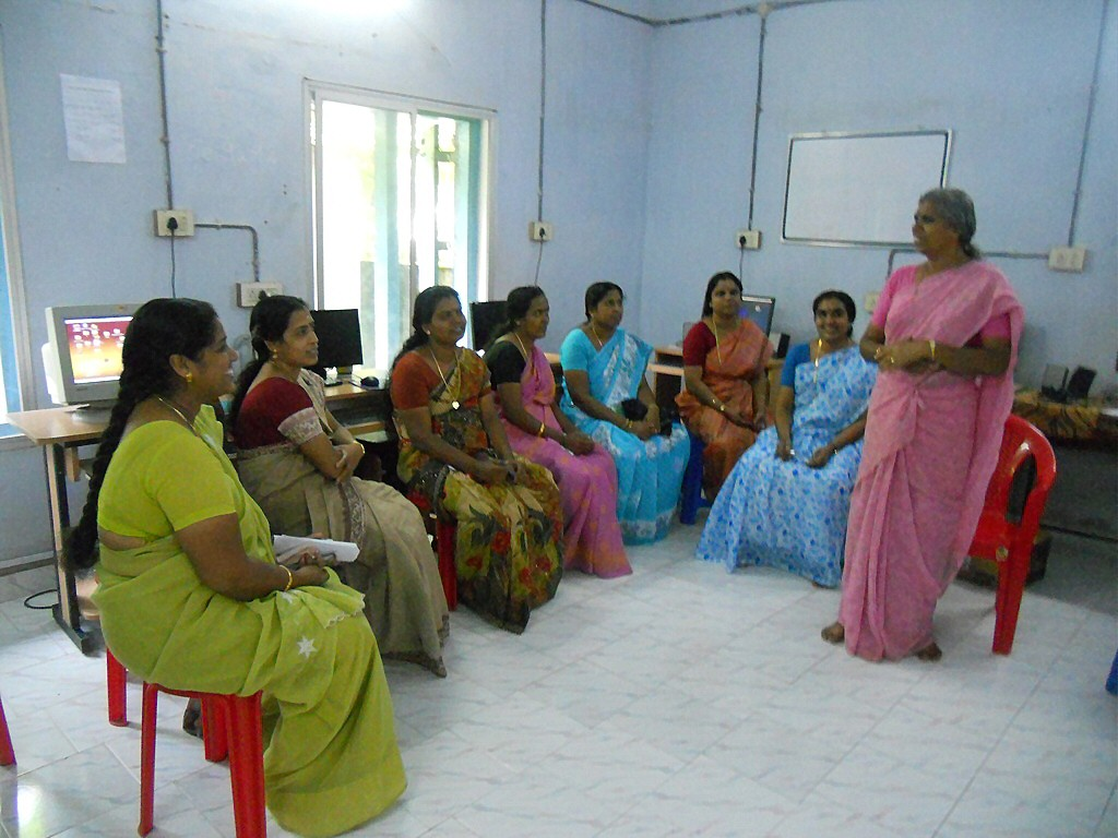 Parental awareness class for parents it@school,chavara